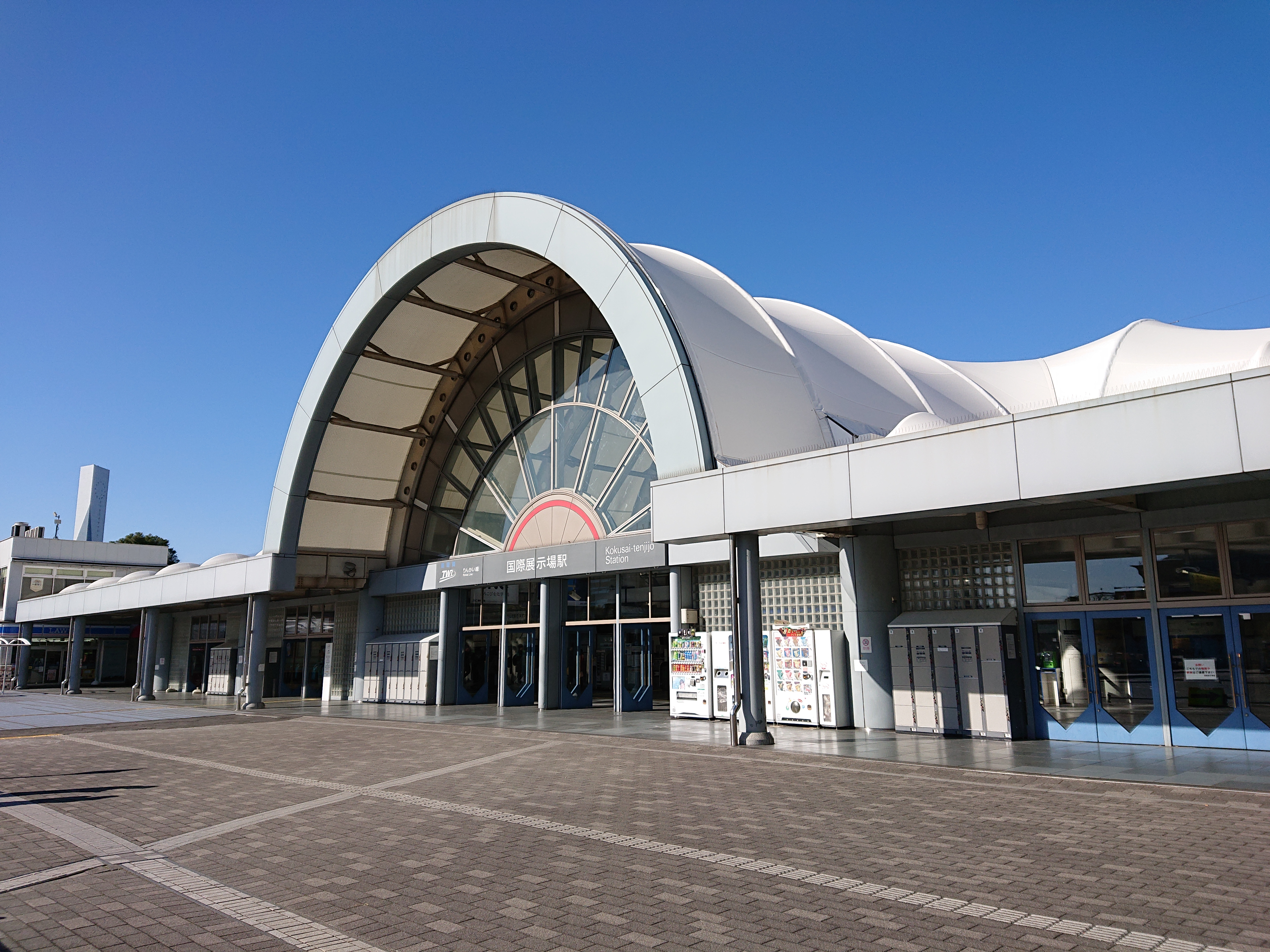 Kokusai-Tenjijō Station, located at 2-5-25 Ariake, Koto, Tokyo, Japan